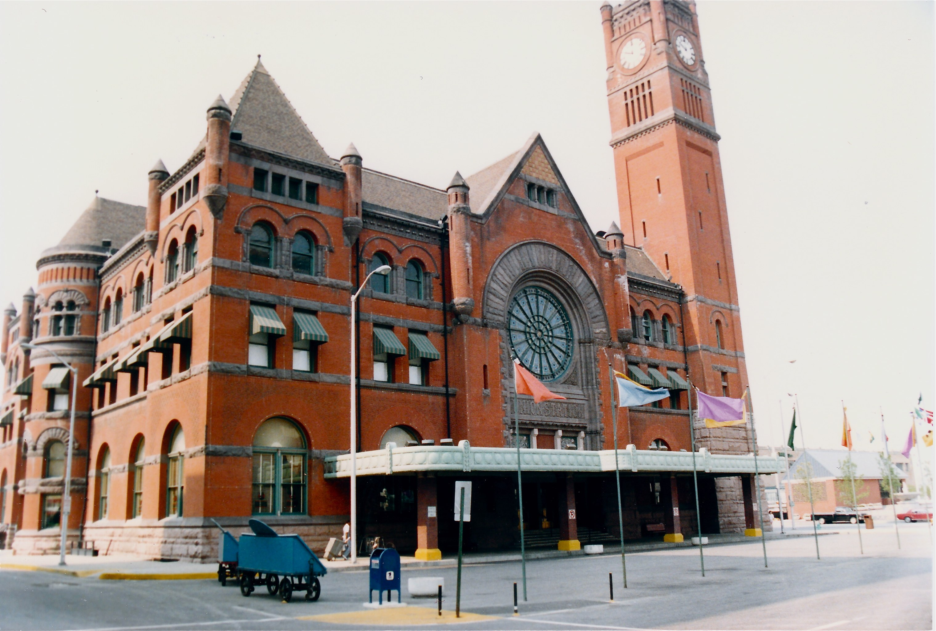 Union Station, Indianapolis, June 1988.